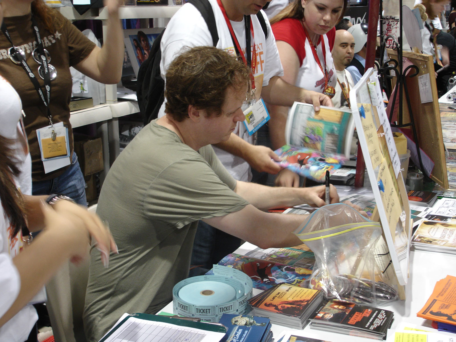 Comic-Con 2006 - Joss Whedon signs at the Browncoats booth